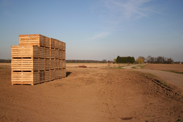 Potato crates New potato crates on Mill Lane